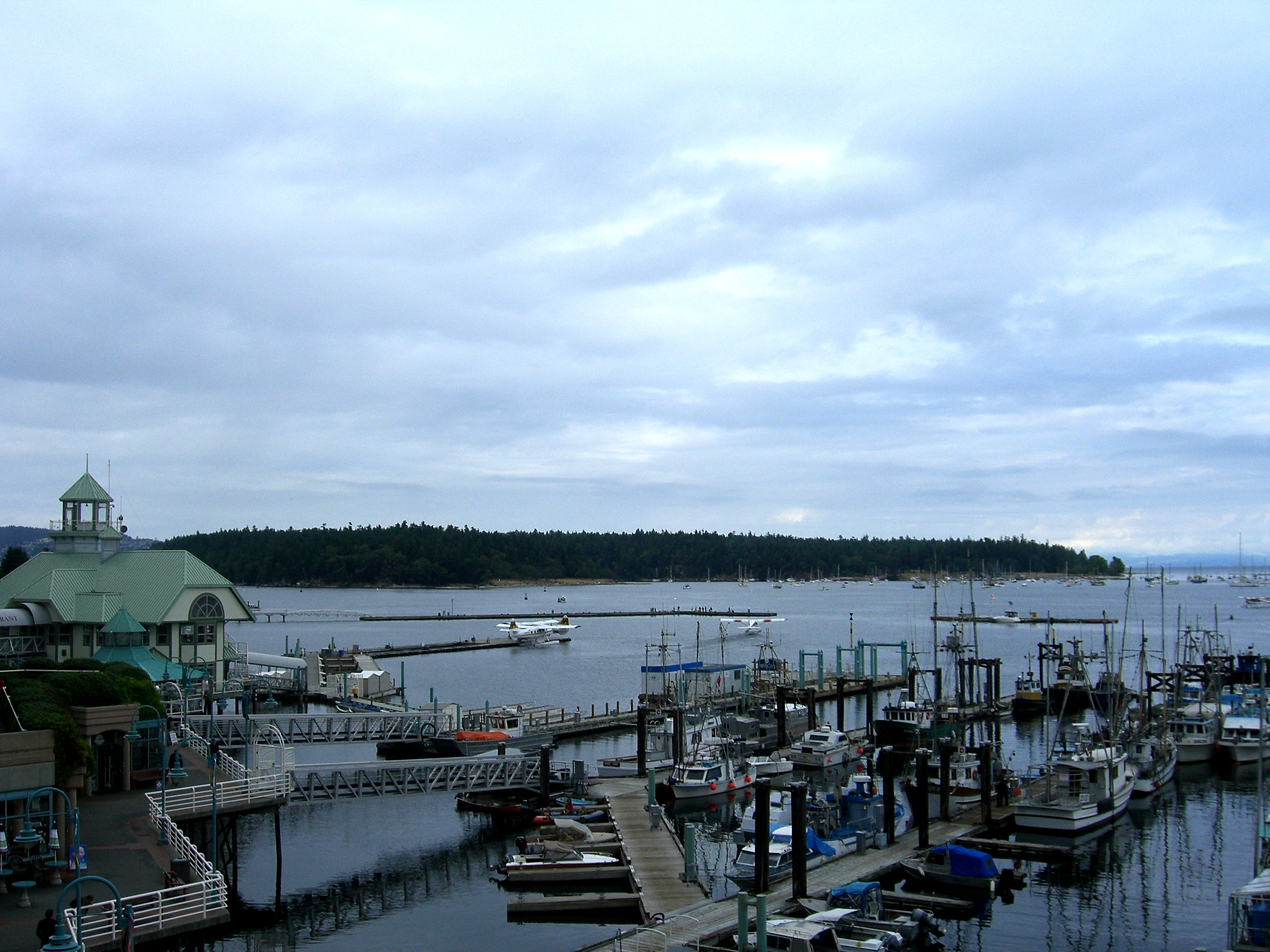 Nanaimo Harbour Water Airport, (IATA: ZNA, TC LID: CAC8), is located adjacent to Nanaimo, British Columbia, Canada.